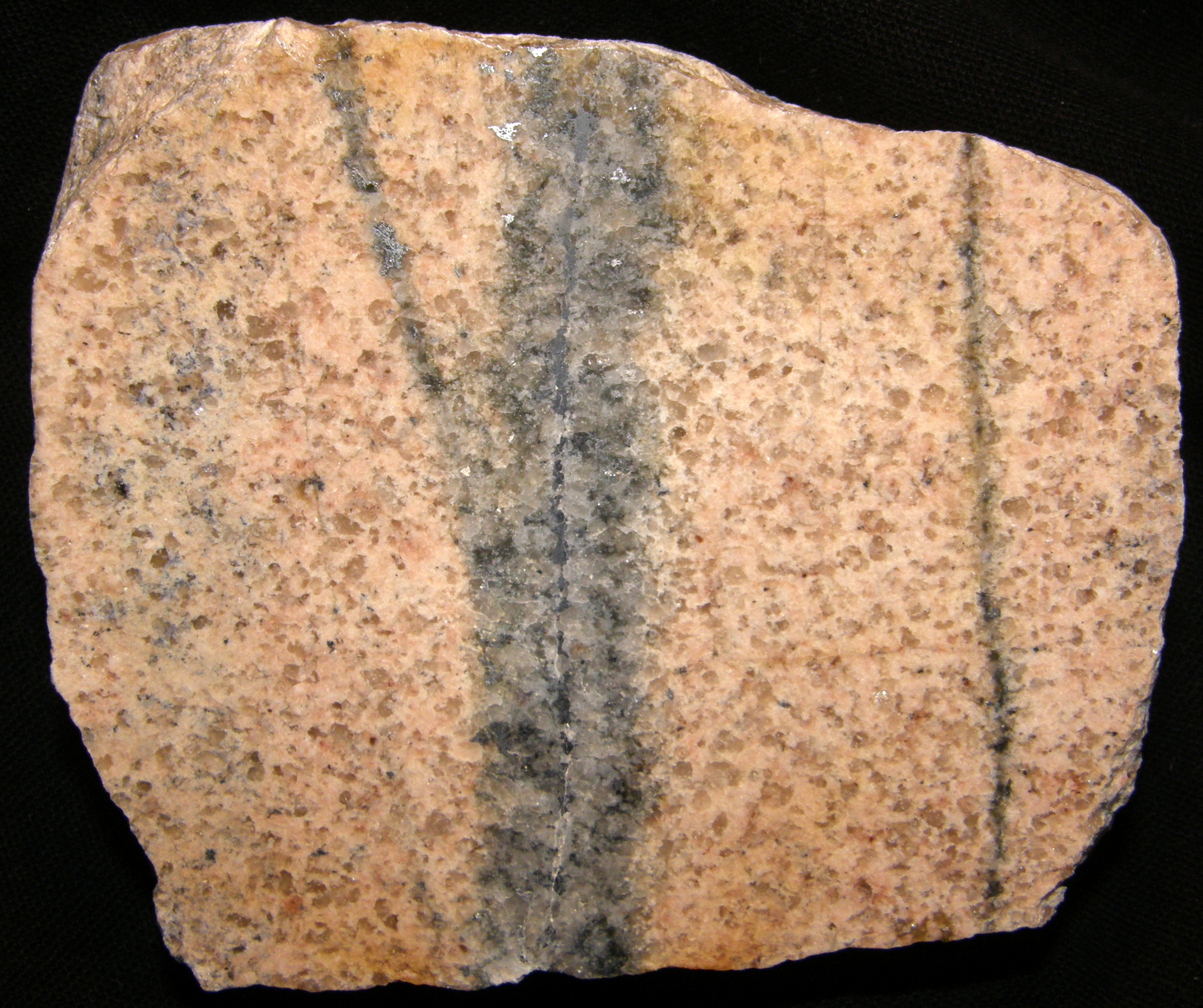 Greisen vein with cassiterite and arsenopyrite in granite from Geyer, Erzgebirge, Germany